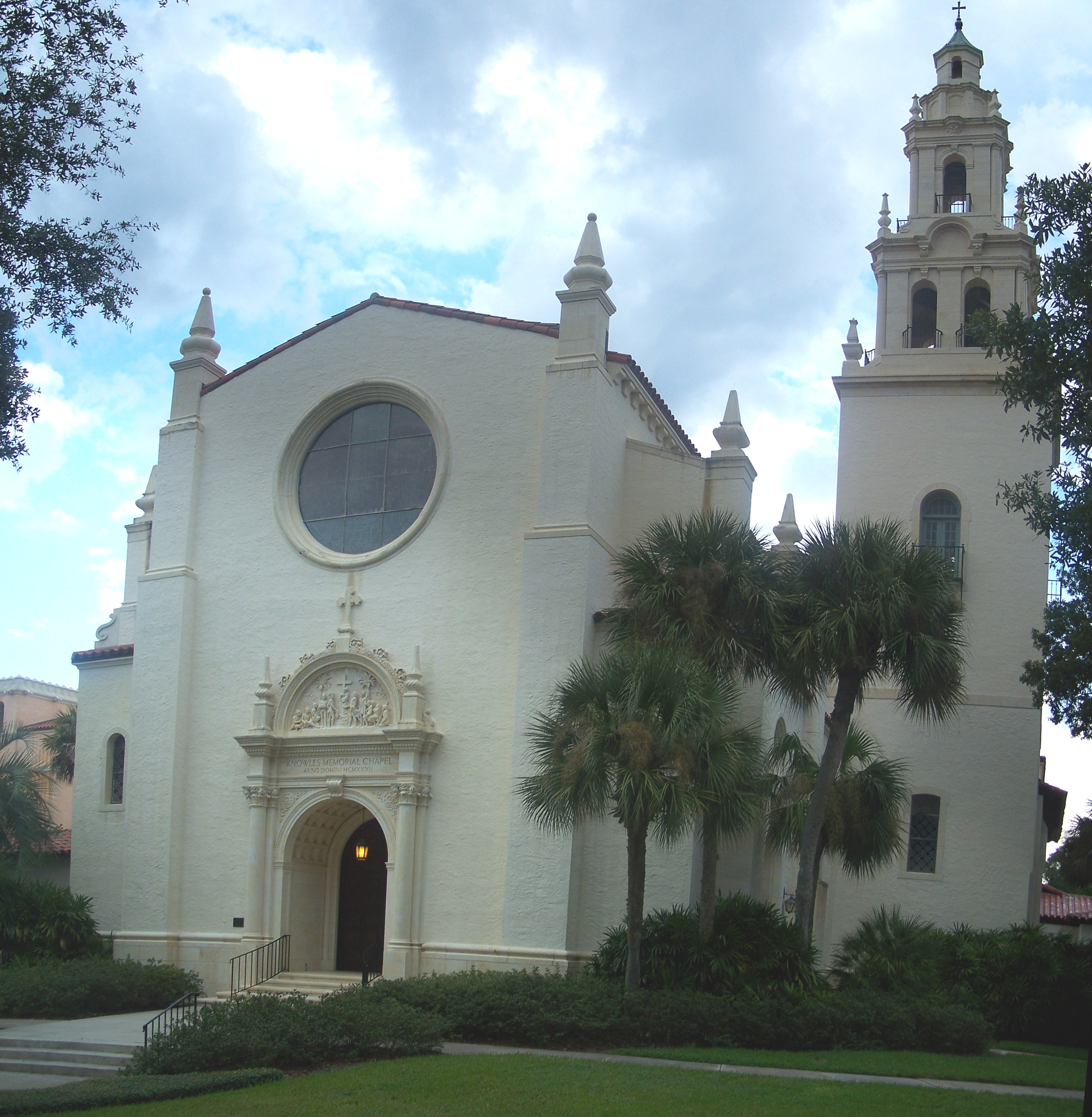 Winter Park, Florida: Knowles Memorial Chapel